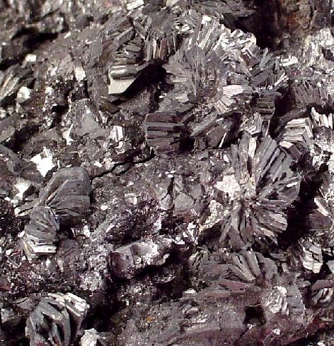 Semseyite Locality: Baia Sprie (Felsöbánya), Maramures County, Romania (Locality at ) Size: 11.5 x 7.2 x 3.5 cm. An EXCEPTIONALLY RICH and SHOWY CABINET specimen of lustrous, radiating blades and book-like clusters of the uncommon sulfosalt, semseyite, from the TYPE LOCALITY in Romania. The parallel-growth sphalerite crystals at the top of the piece are a very nice accent.